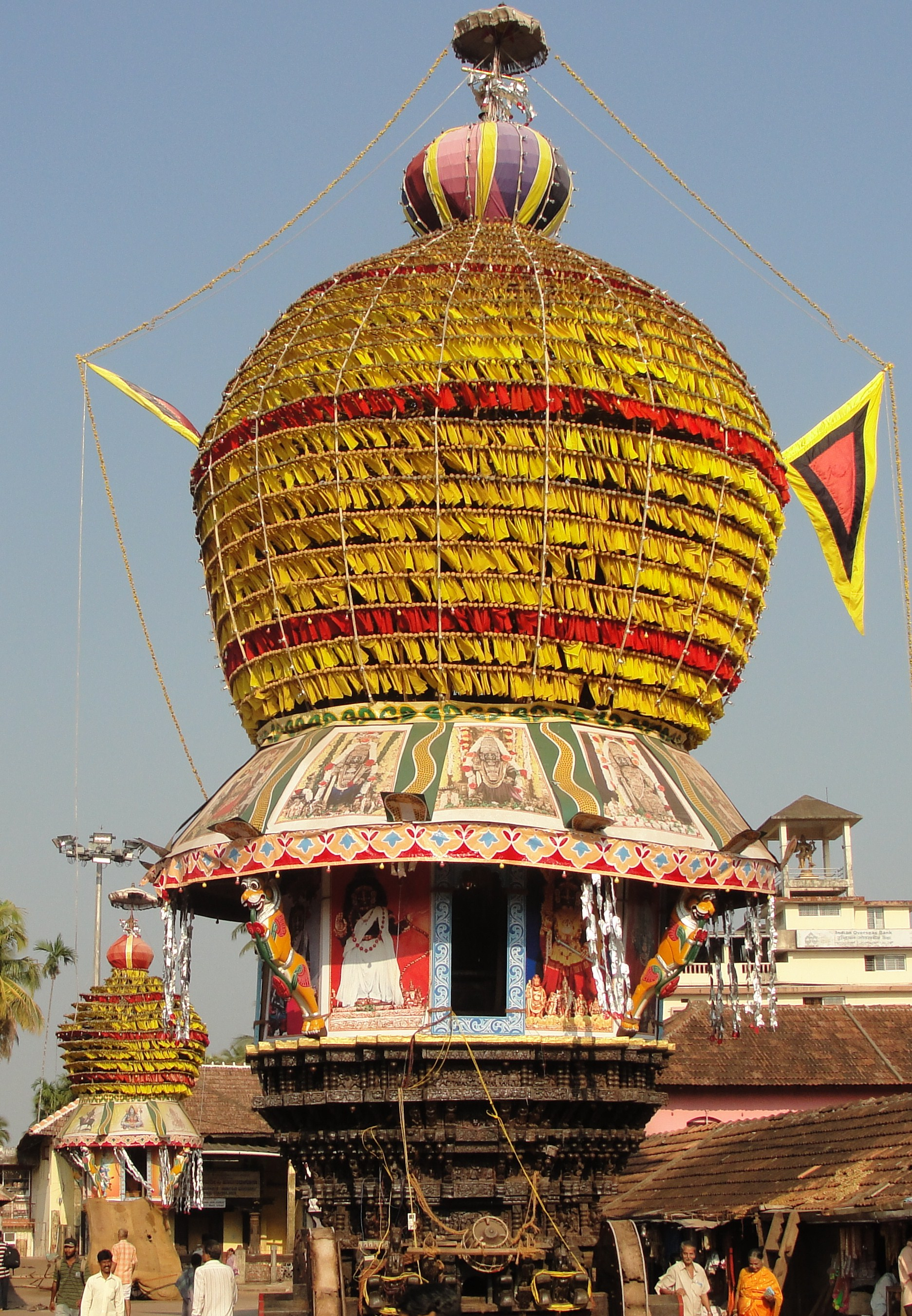 Decorated chariot, Udupi, India